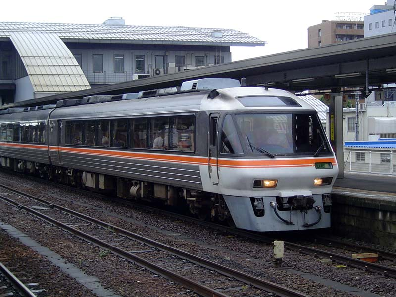 JR CentralKiha 85 train.